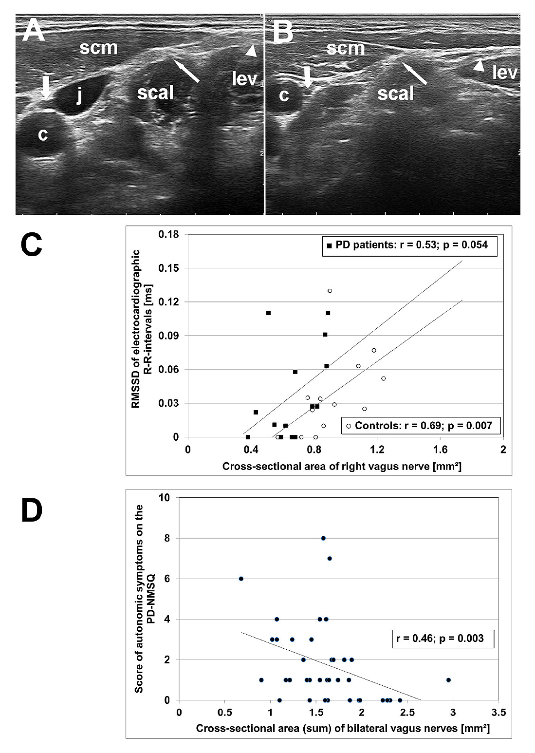 Original figure caption: High-resolution ultrasonography (HR-US) findings of vagus, spinal accessory and phrenic nerves in PD patients and controls. (A) Axial HR-US scan of the lateral cervical region at the midneck level in a healthy elderly woman. The vagus nerve (thick arrow) is visualized in the carotid sheath between the common carotid artery (c) and the jugular vein (j). The phrenic nerve (thin arrow) is located superficial to the scalene muscle (scal) underneath the sternocleidomastoid muscle (scm). The spinal accessory nerve (triangle) is identified superficial to the levator scapulae muscle (lev). (B) Axial HR-US scan of the lateral cervical region in a PD patient. Compared to the control subject shown in (A) the vagus nerve (thick arrow) shows a clearly reduced caliber. The phrenic nerve (thin arrow) and the spinal accessory nerve (triangle) are of similar size as in age-matched controls. (C) Diagram showing the correlation between RMSSD, an electrocardiographic parameter reflecting vagal cardiac innervation, and caliber of right vagus nerve in PD patients (°) and age-matched controls (■). (D) Diagram showing the correlation between the sum score of autonomic symptoms on the PD Non-Motor Symptoms Questionnaire (calculated from items 1, 3, 4, 5, 6, 7, 8, 11, 19, 20, 28) and bilateral vagus nerve caliber in the combined group of PD patients and age-matched controls.